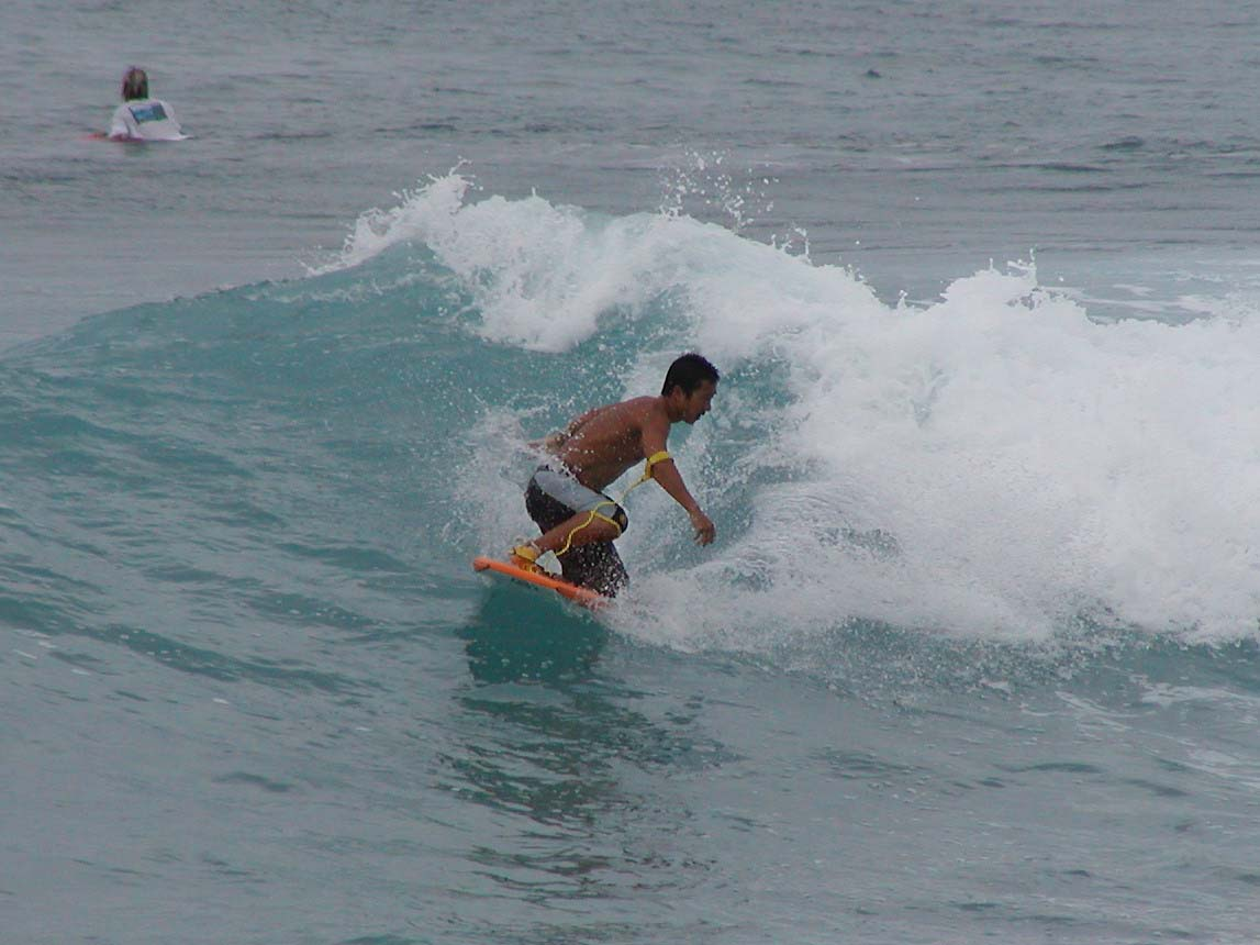 Oahu North Shore surfer close up